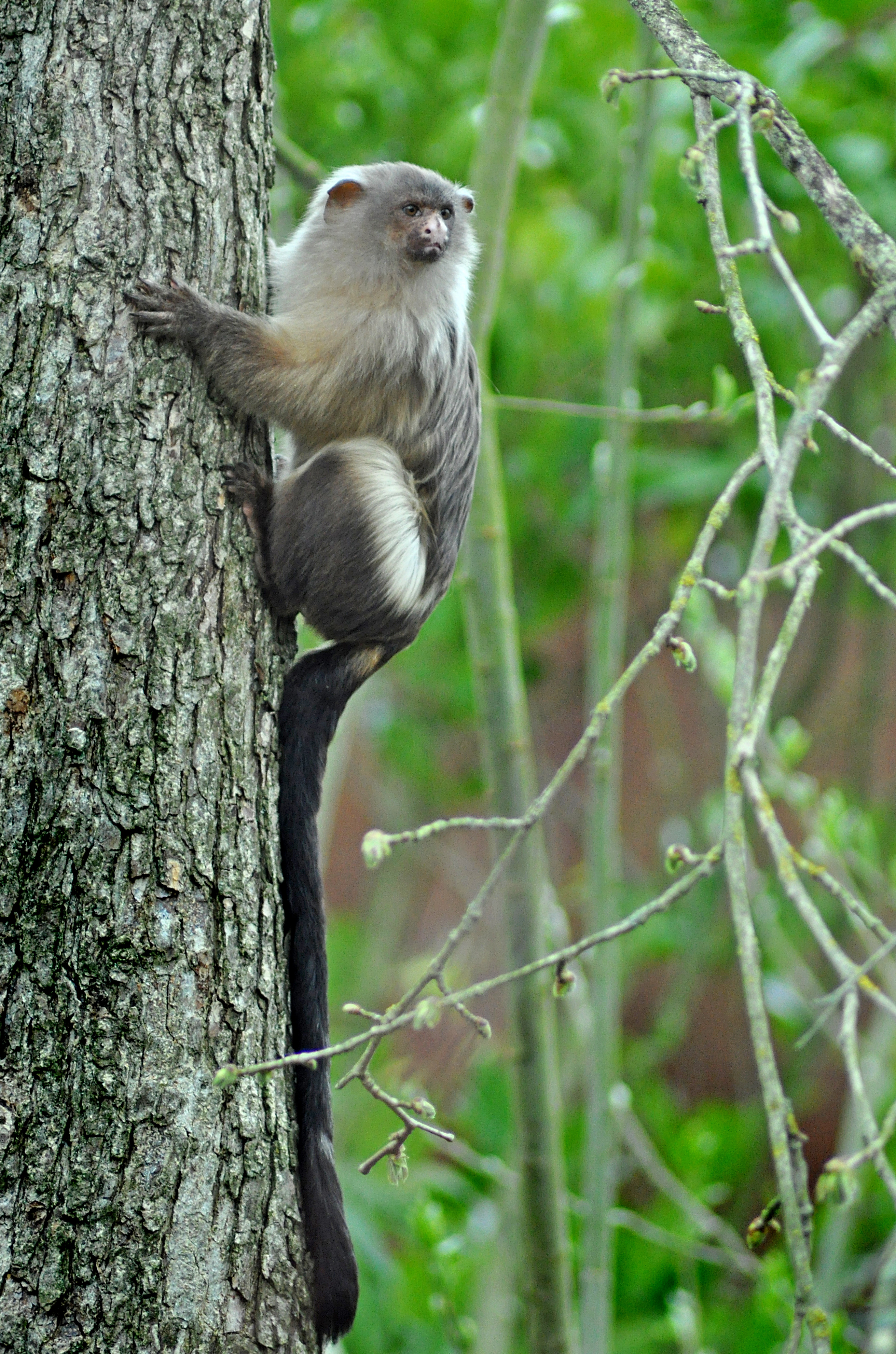 Black tailed marmoset (Mico melanurus) in Chester Zoo.